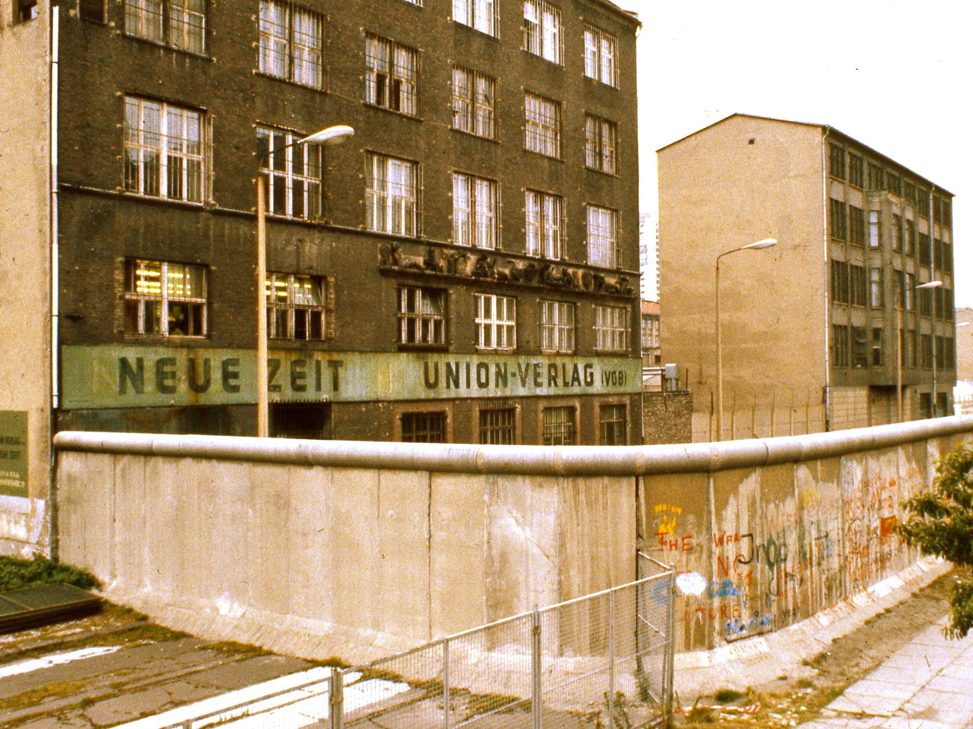 Exterior of East Berlin Neue Zeit newspaper building (from the rear), with Berlin Wall in foreground, 1984. Other information Photo by George Garrigues.